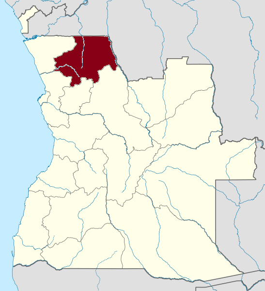 Uige Province, Angola